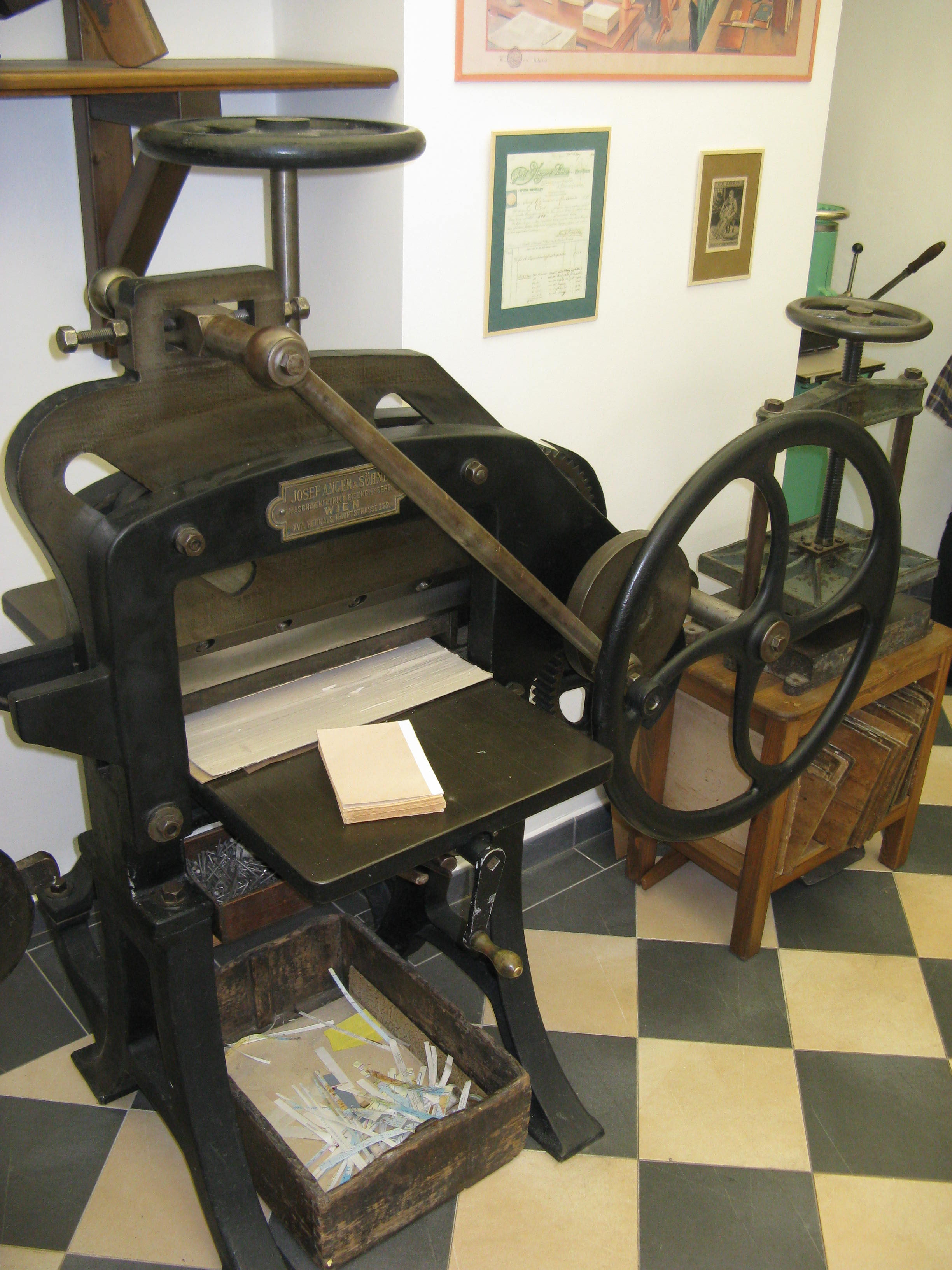 An old paper cutter in the Classical Bookbinding Museum in Rožďalovice, Czech Republic